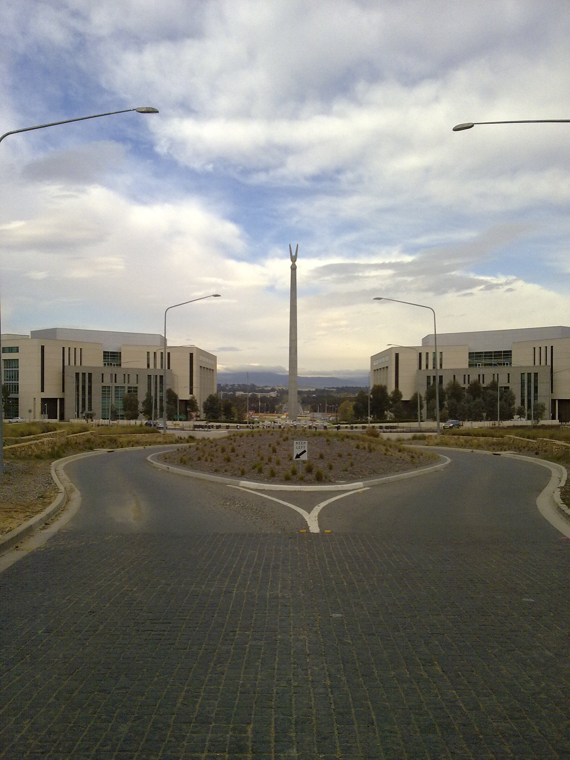 The main offices at Russell as viewed from Northcott Drive to its east.